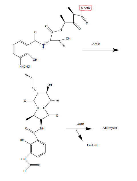 Part 2